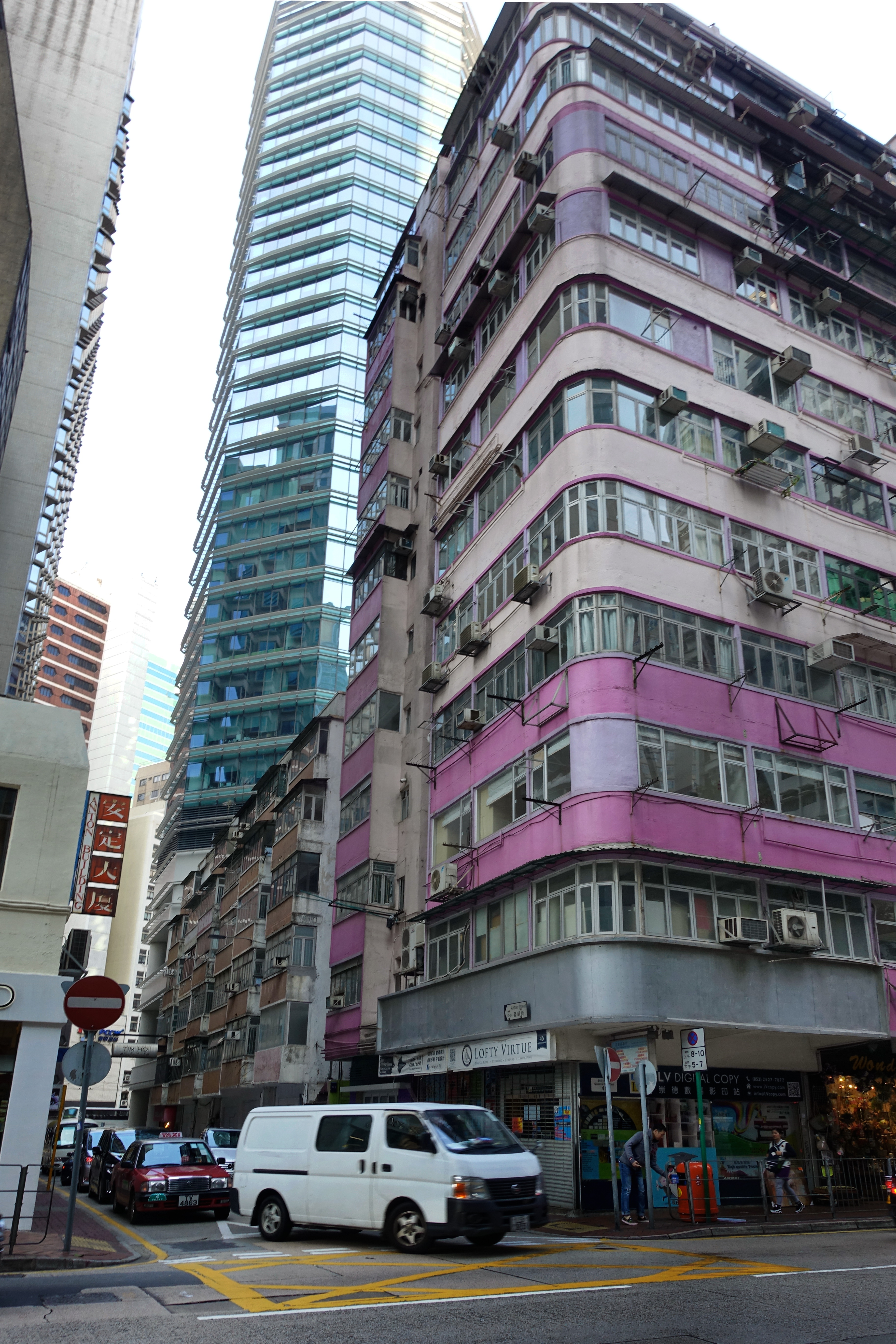 Anton Street and Po Wah Building (54 Queen's Road East) , Wan Chai, Hong Kong.